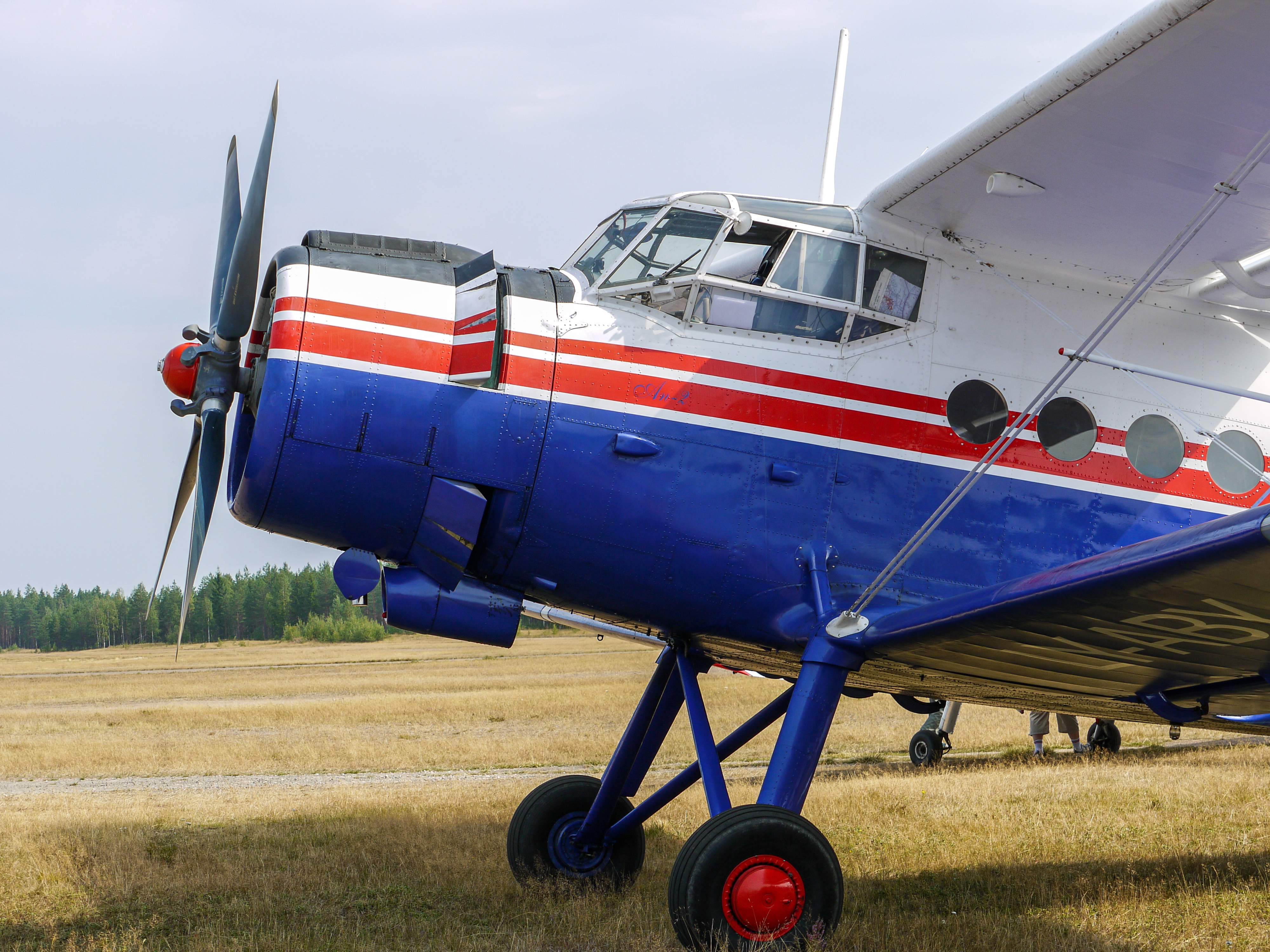 Antonov An-2 LY-ABY at Selänpää Air Show in August 2010.